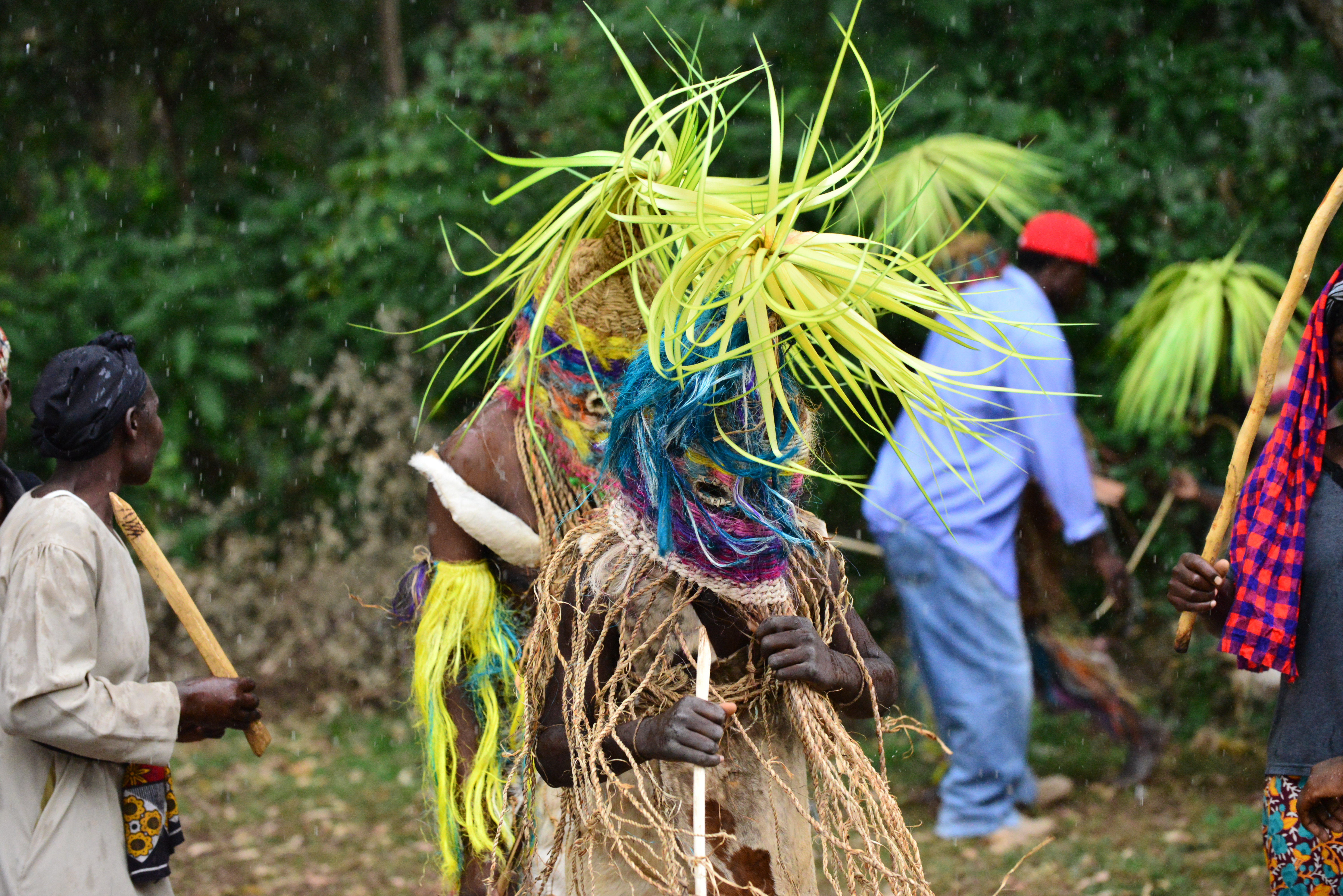 Boys from the Tiriki community of Western Kenya in traditional masks and animal hide ceremonial regalia after undergoing initiation into adulthood by circumcision and living in seclusion for four weeks This is an image of Cultural Fashion or Adornment from Kenya